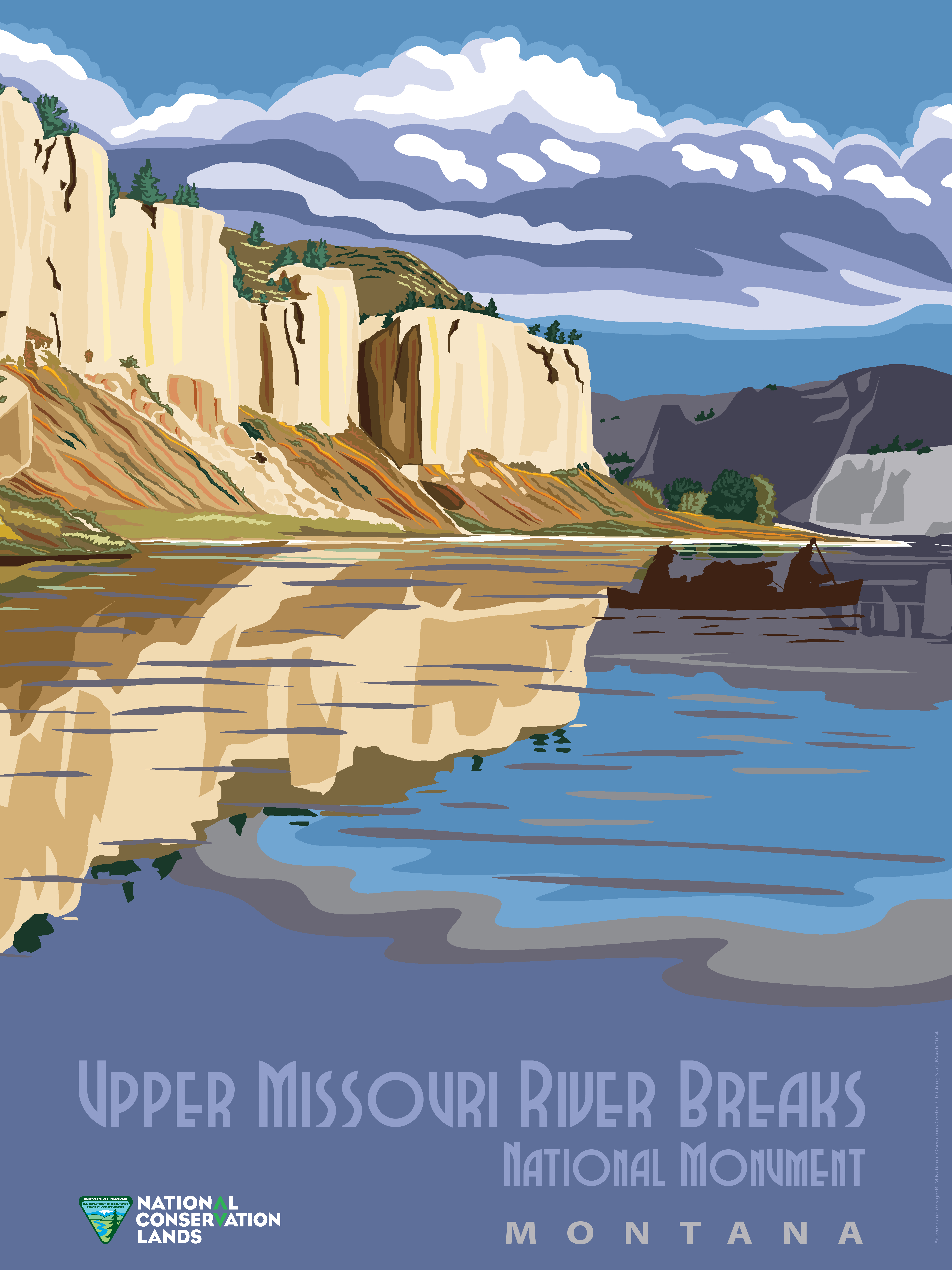 Unspoiled and rugged, the lands of the Upper Missouri River Breaks National Monument stretch across almost 375,000 acres in central Montana. Towering cliffs—their slopes fragrant with the sharp smell of sagebrush—flank the Upper Missouri National Wild and Scenic River, which flows for 149 miles through the monument. A spectacular array of animals and plants calls this area home, taking advantage of the life-sustaining coulees (natural runoff or drainage areas) that abound. No less notable for its history than for its wildlife, the Upper Missouri River Breaks region was first documented in 1805 by Lewis and Clark, who traveled the river during their expedition west. There, the explorers encountered Native Americans, who had lived in the area for many years. The land later became a source of hope and inspiration for early American settlers, not to mention a sanctuary for outlaws eager to hide in the labyrinth of the badlands. Fur trappers and traders, too, could be seen moving their goods downriver, waters that would later reflect the distinctive designs of modern steamboats powering along. The unique character of the Upper Missouri River Breaks continues to flavor the local lifestyle, boosting the regional economy through tourism and other industries. Since 2001, when a Presidential proclamation designated the area a national monument, the Bureau of Land Management has managed these lands as part of the National Landscape Conservation System. The vintage posters will be available at BLM state offices in both postcard and poster formats within the next few weeks. Requests for paper posters can also be sent to . Please include the word POSTER in the subject line and provide your name, mailing address, and the number and type of poster. Requests are limited to five posters per recipient. 6/17